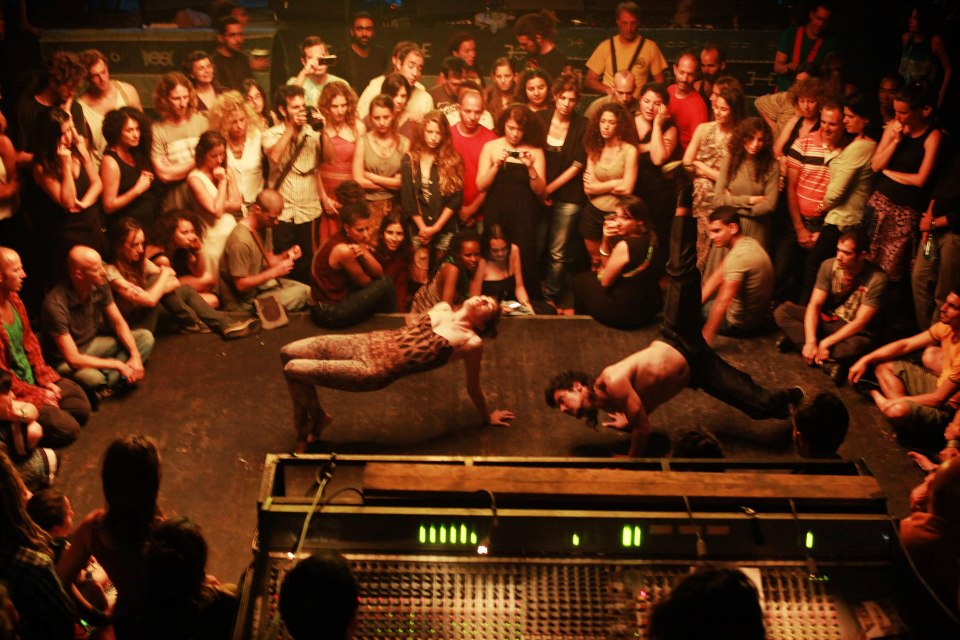 Animal Duet (tribute to Mali) performed by Caroline Boussard and Anderson Braz, Maria Kong at Barbi, Tel Aviv